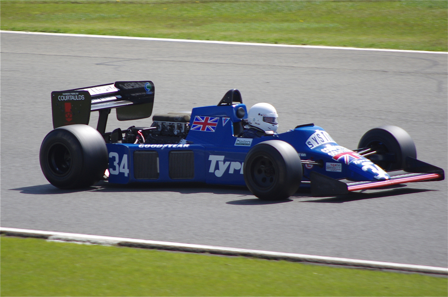 Silverstone Classic, 2012